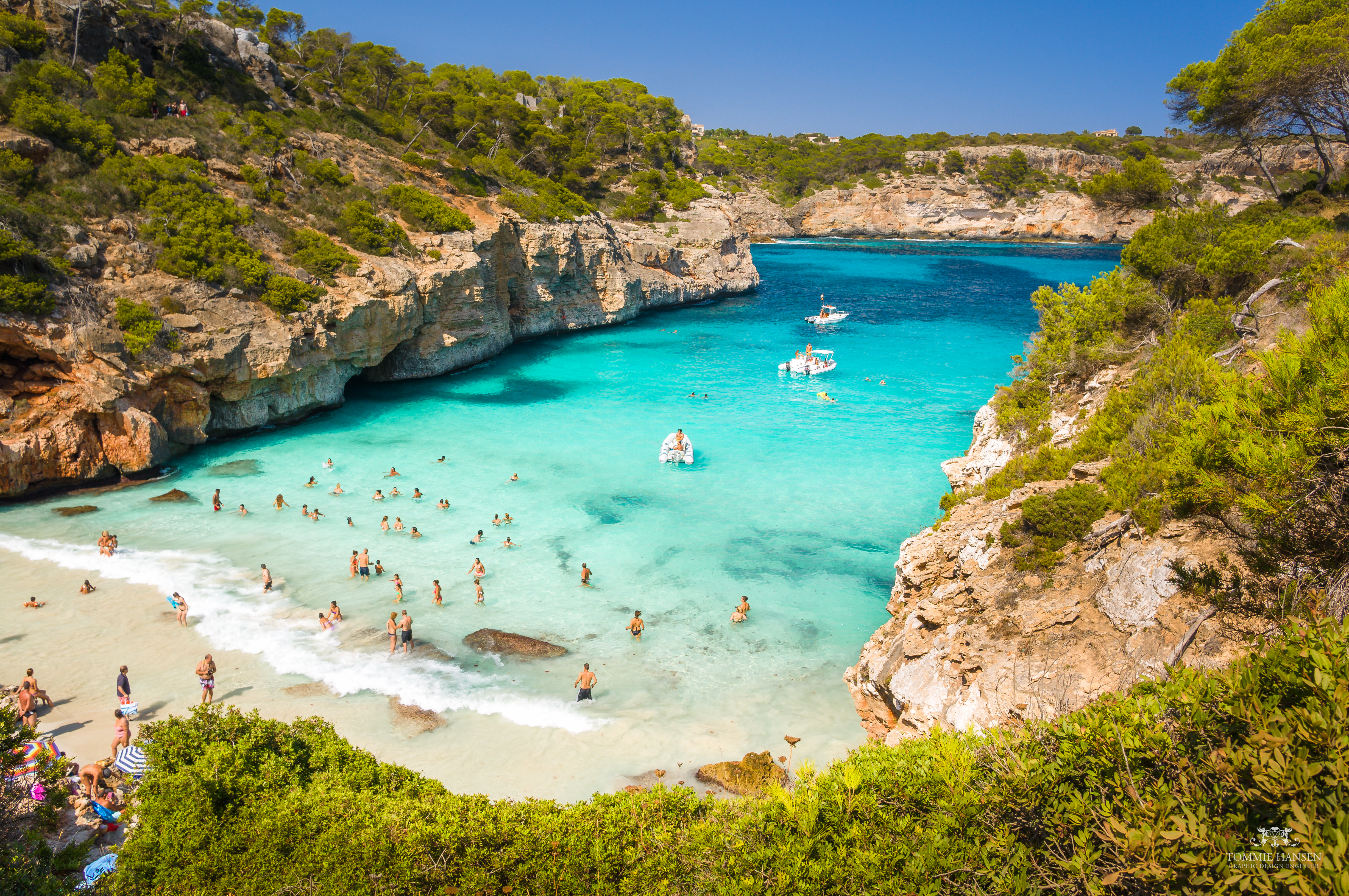 View of the bay at Calo des Moro, Mallorca (Spain)